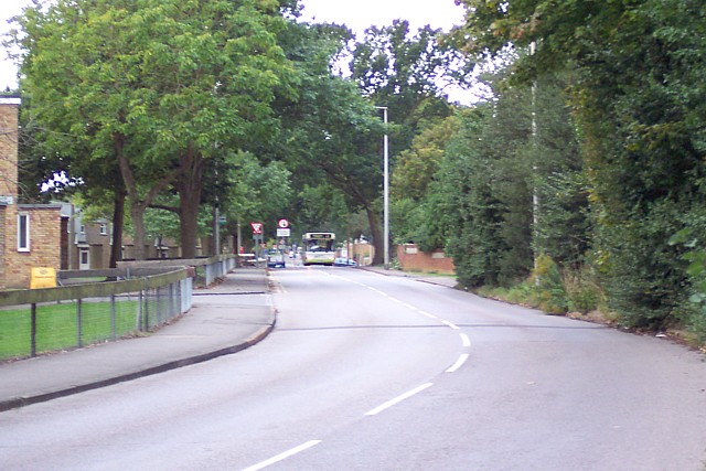 Pirbright Camp entrance. The entrance to Pirbright Camp, looking west into the camp. Pirbright is now home to one of the four Army Training Regiments: it trains recruits for The Household Cavalry, The Royal Logistic Corps, the Royal Electrical and Mechanical Engineers and the Royal Artillery. It was formerly home to the Guards and also the Gurkhas. Until a few years ago it was possible for civilians to drive straight through the camp from Brookwood to Deepcut but with the increased need for security entry to the camp is no longer permitted.